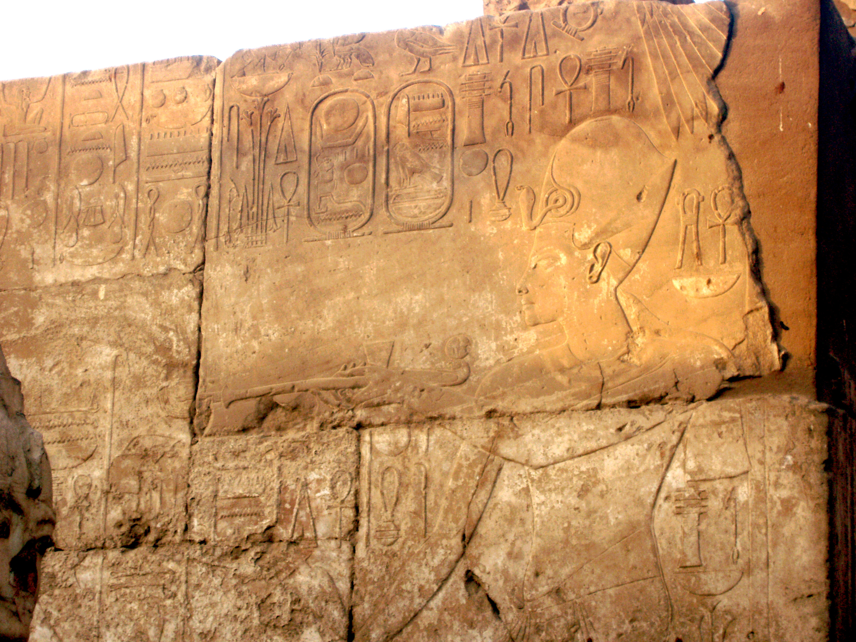 One of very rare reliefs of Tutankhamun, from the temple of Luxor - Usurped by Horemheb